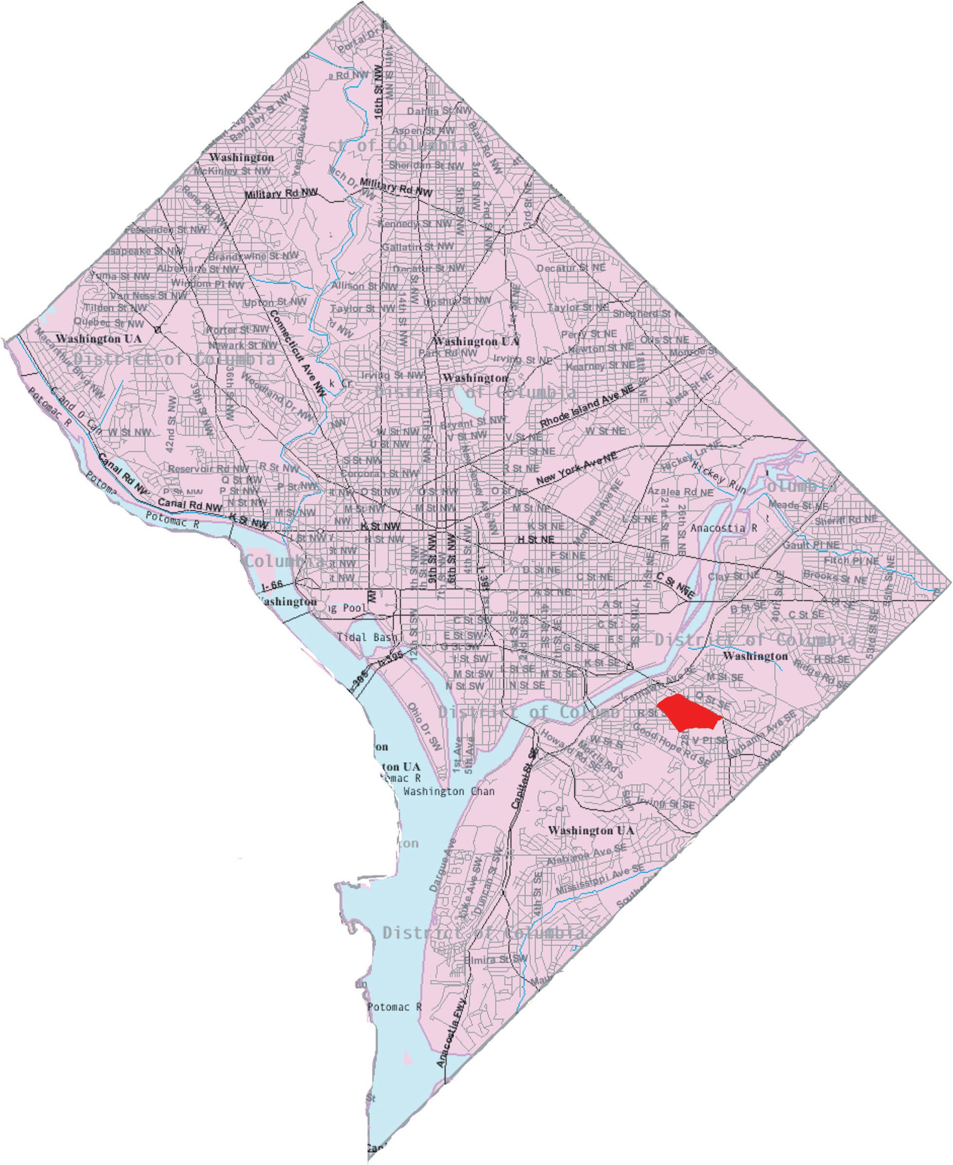 This image is a modified version of a self-generated reference map from the U.S. Census Bureau's American Factfinder at by Wikipedia user Msclguru.